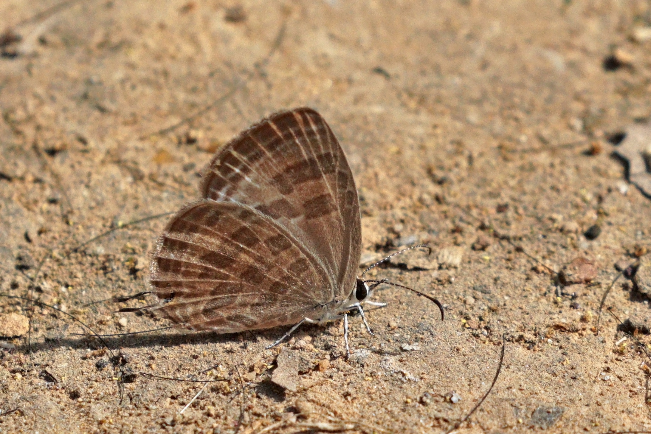 Common cerulean (Jamides celeno aelianus) dry season form, National Botanical Garden, Godavari, Nepal